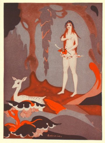 Illustration to Ovid's Art of Love